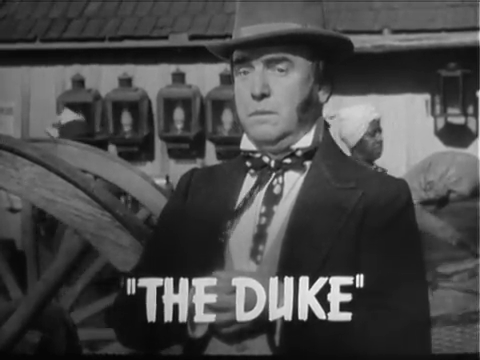 William Frawley in The Adventures of Huckleberry Finn, by Richard Thorpe (1939)